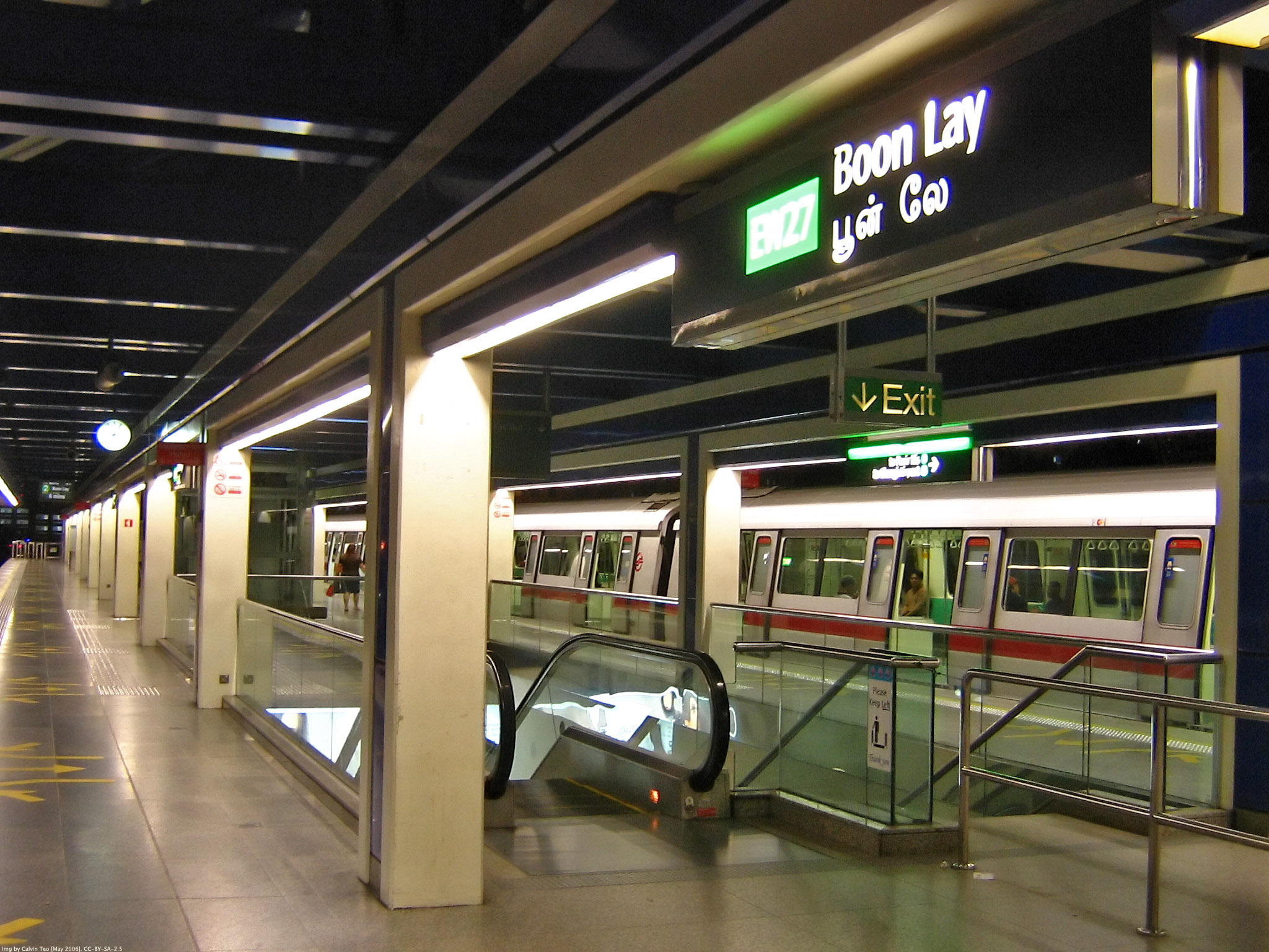 EW27 Boon Lay MRT Station Terminal Station of East West Line, Republic of Singapore Img by Calvin Teo May 2006